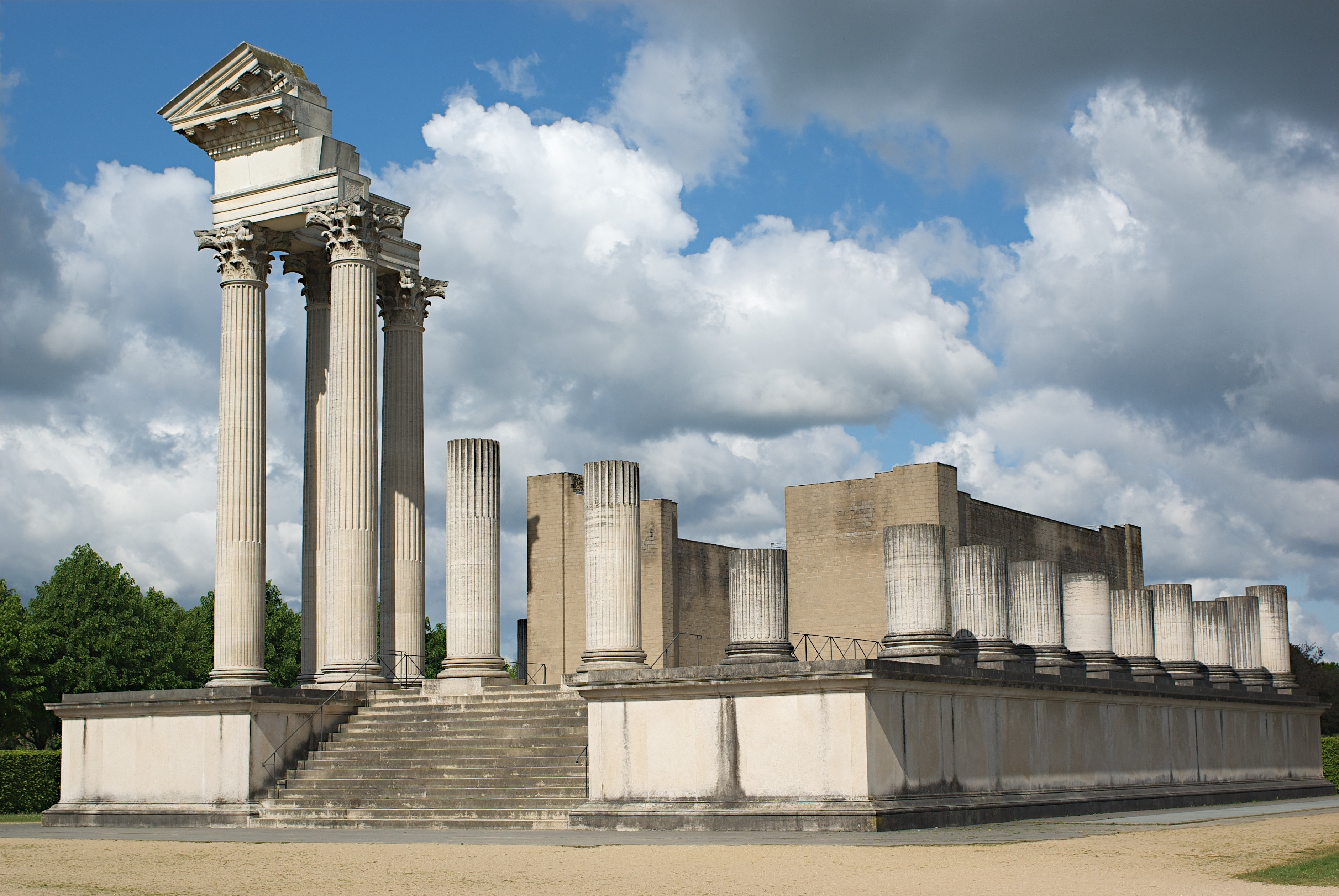 Reconstructed Roman temple at the Archäologischer Park Xanten, Germany.